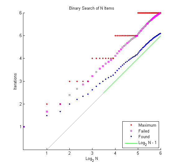 Plot of the number of iterations required by the Binary_search method applied to N items in sorted order, for values of N from 1 to 63.